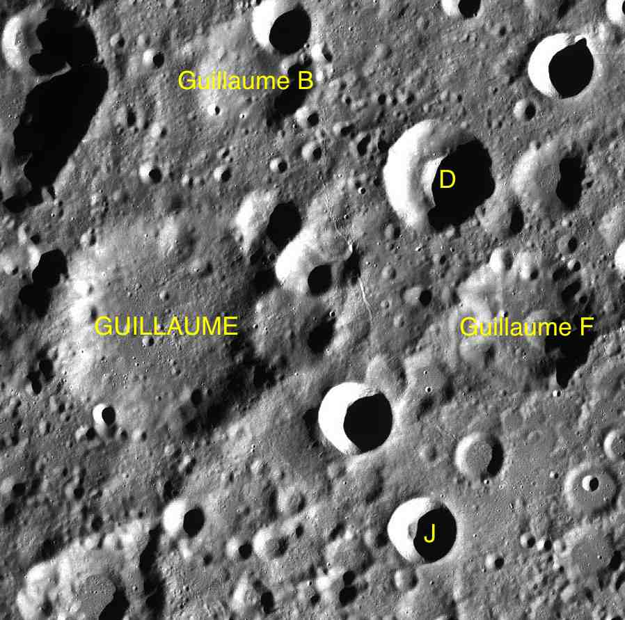 Part of the chart LAC-33 used for the presentation